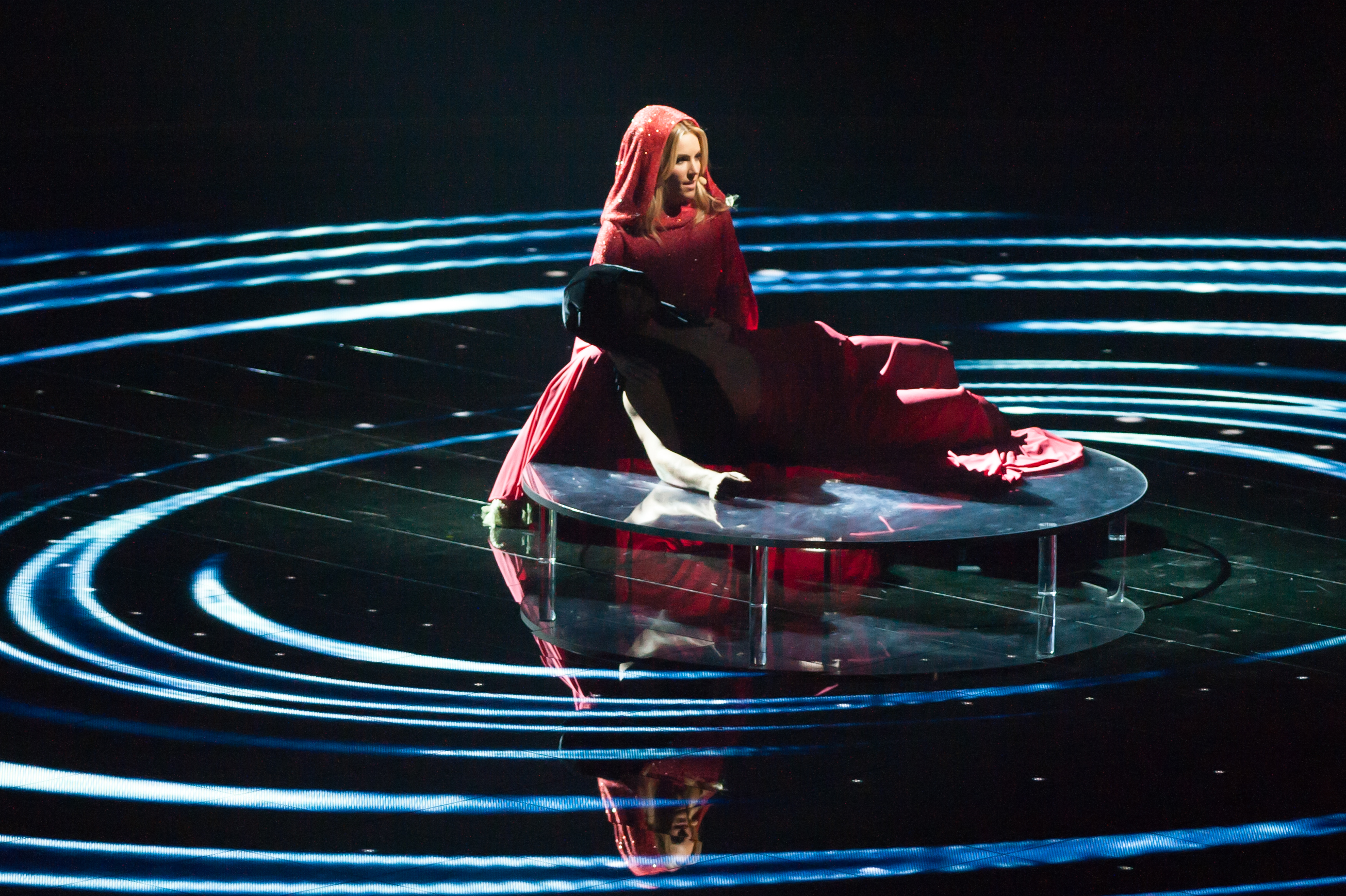 Eurovision Song Contest Vienna 2015: Edurne